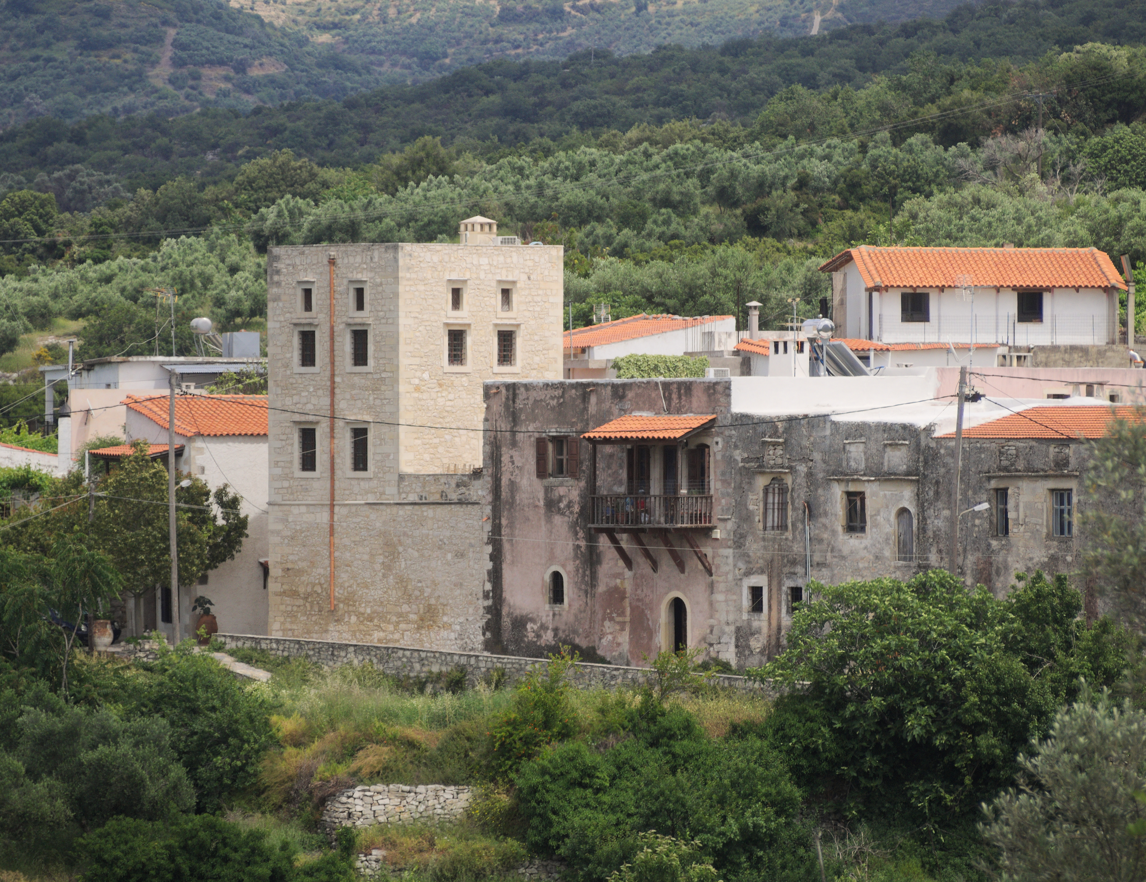 The Episcopic palace and the Tower of Kyrimides at Episkopi, Mylopotamos, Crete.